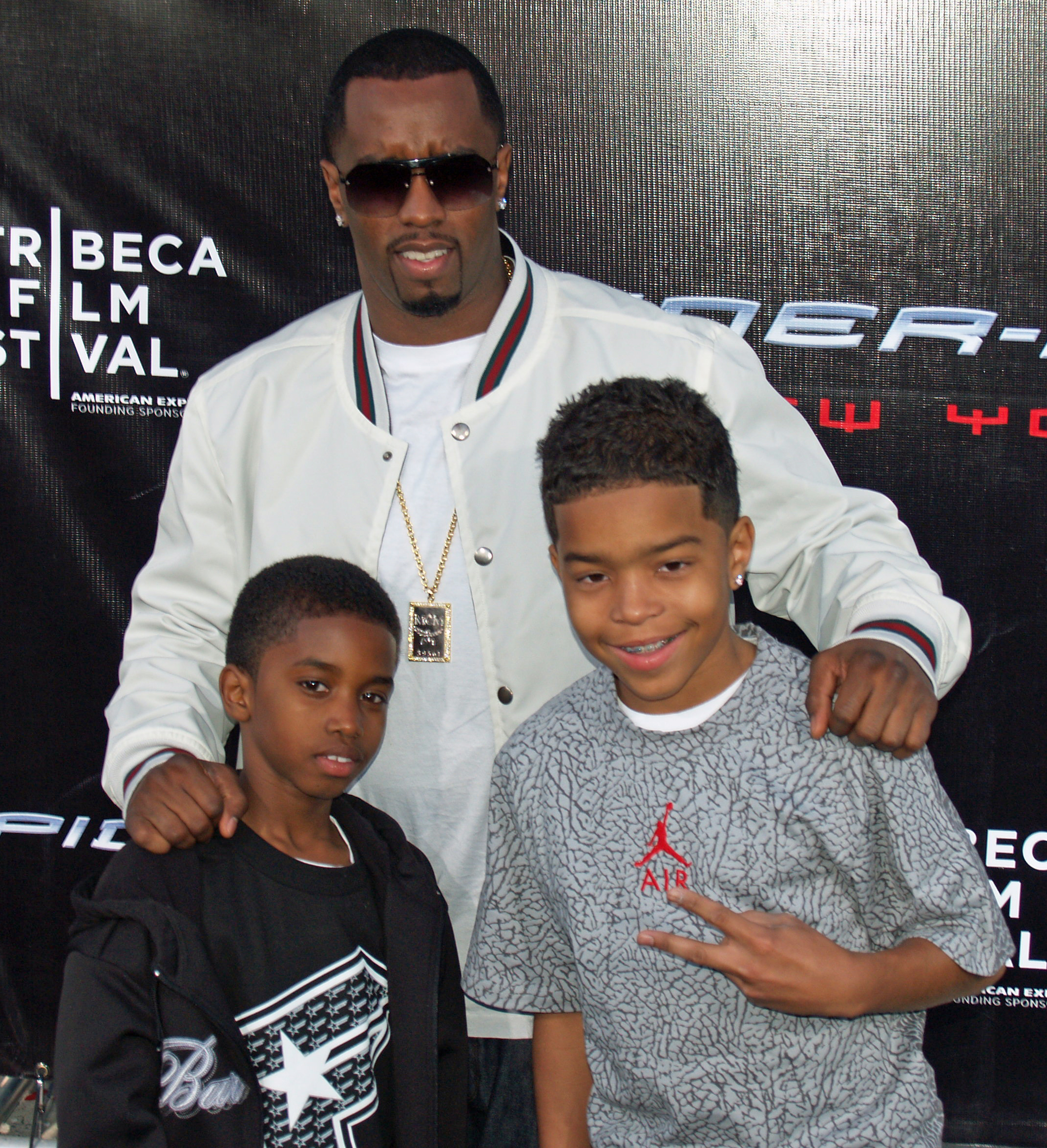 Sean Combs and his children Christian and Justin